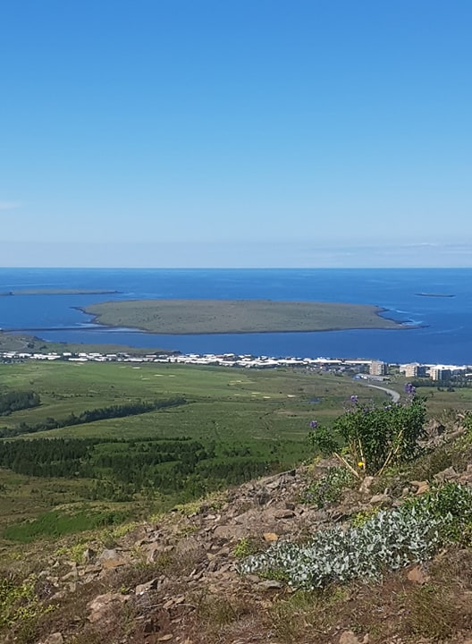 Geldinganes from Úlfarsfell